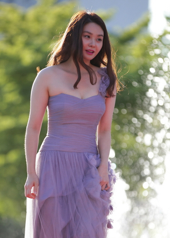 제19회 부천국제판타스틱영화제 개막식 레드카펫 part.1